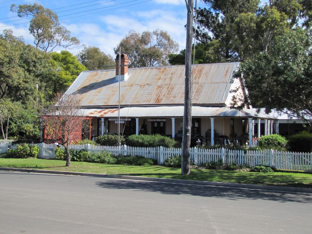 Customs House Museum (2012) - front view